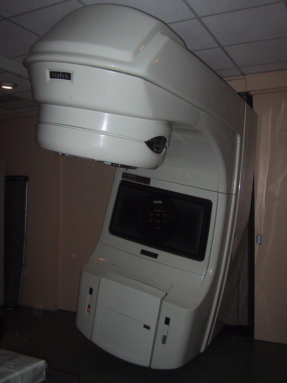 Clinac 2100 C accelerator in the polyclinique de Courlancy in Reims, France.